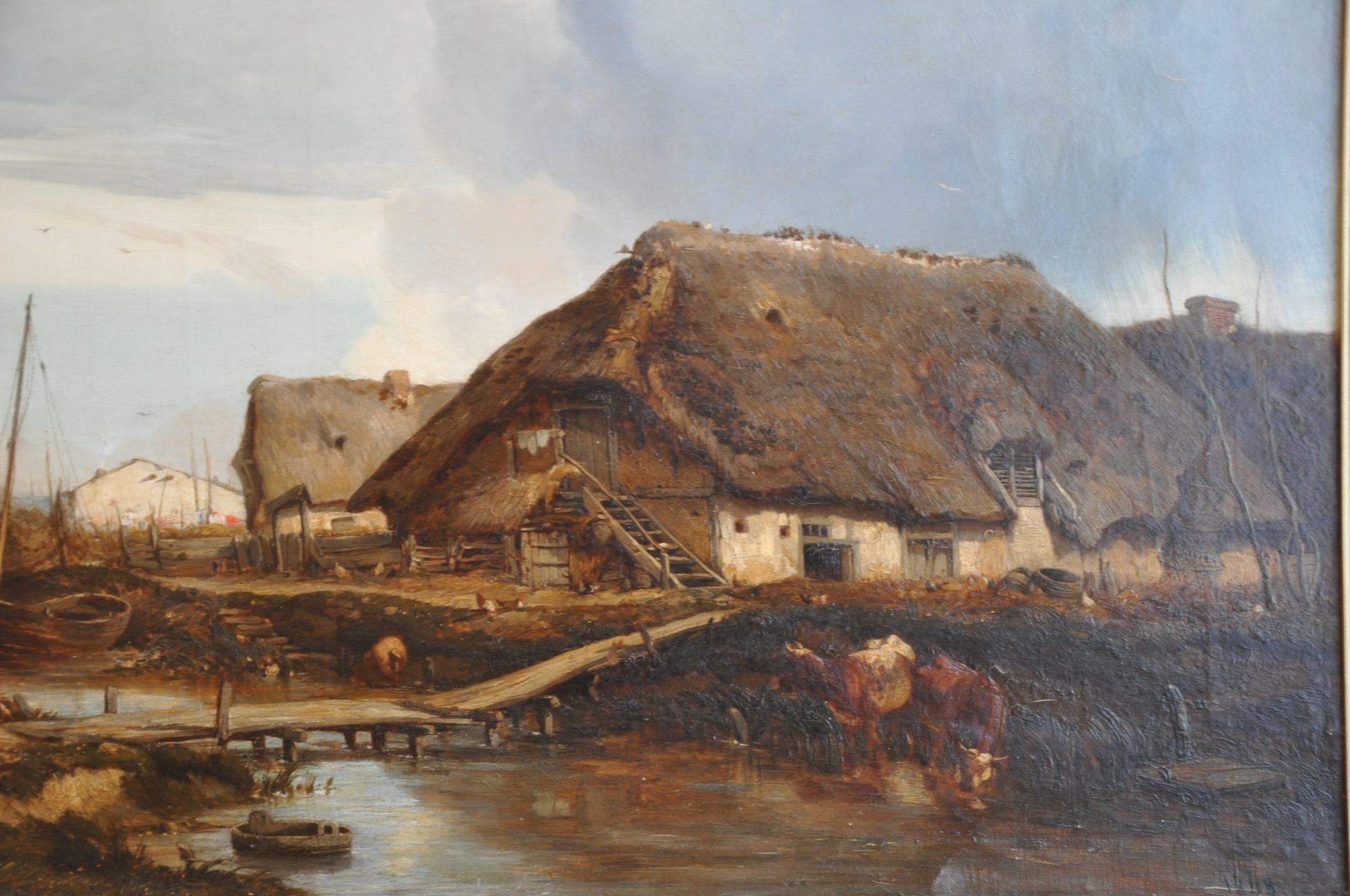 Painting from Camille Flers, 1848